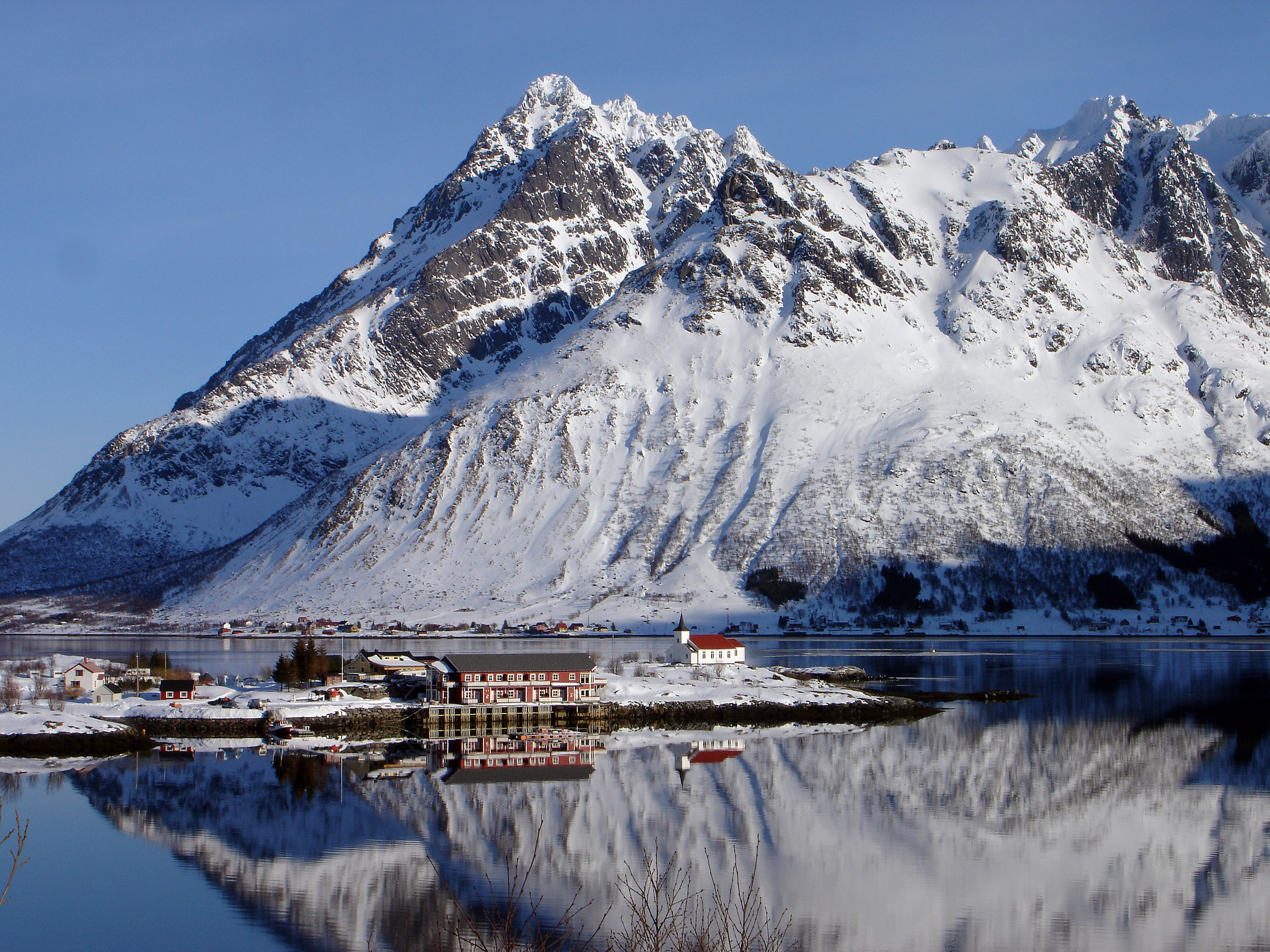 Sildpollneset (peninsula) and Higravtindan (1146m), Vågan, Lofoten, Norway.